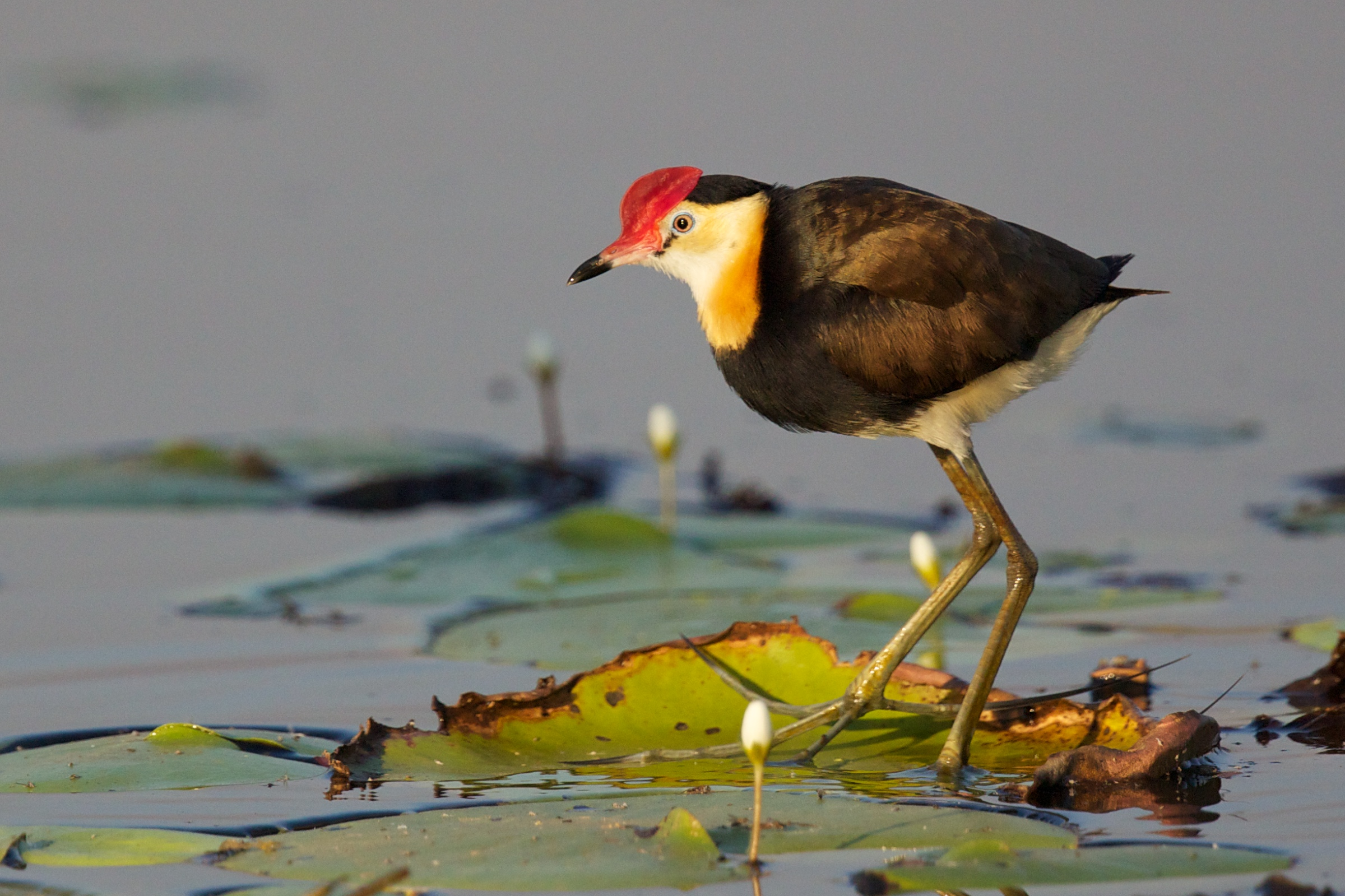 Irediparra gallinacea:Kununurra Lake,Kununurra,Western Australia.